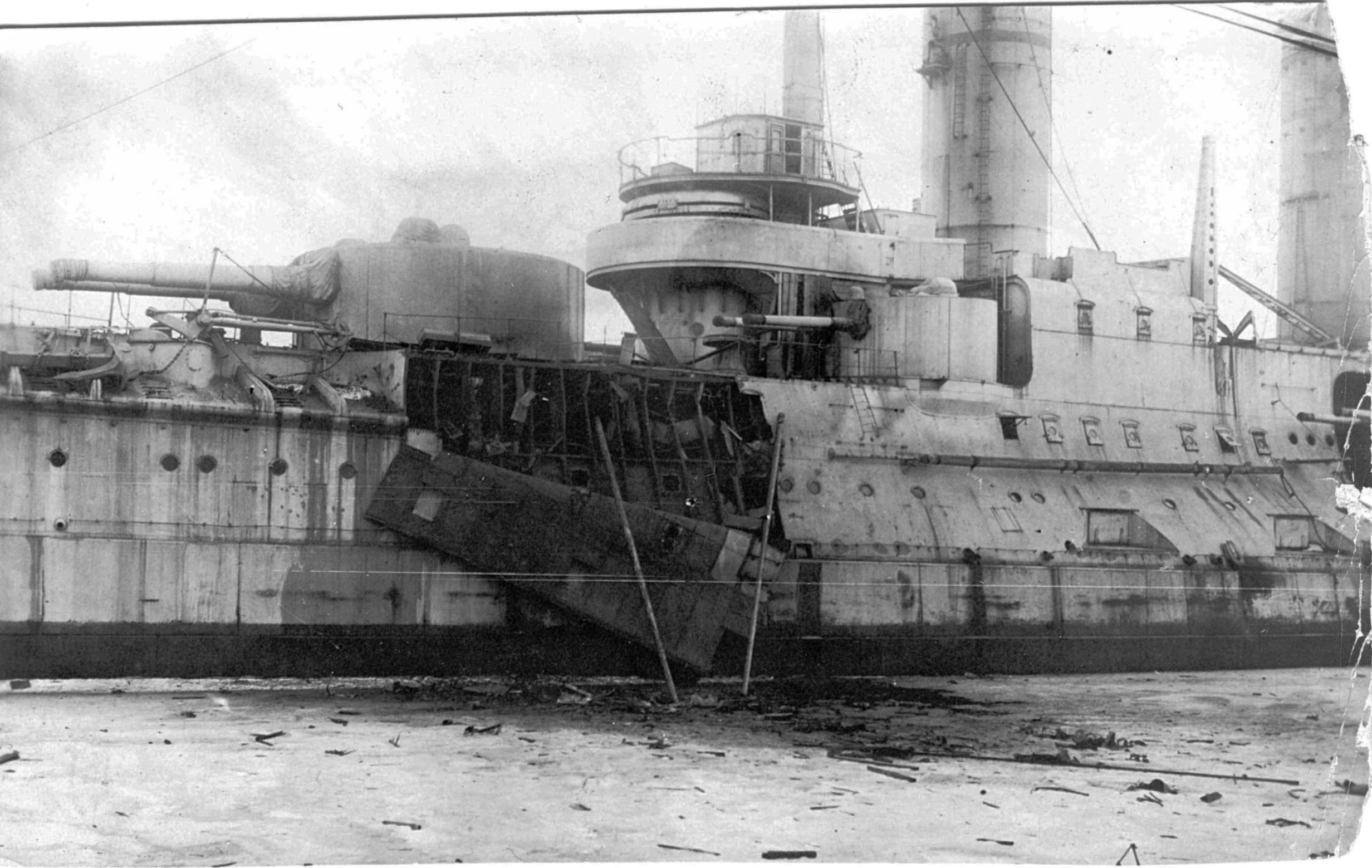 The damaged Soviet Russian battleship «Grazhdanin» in Kronstadt.